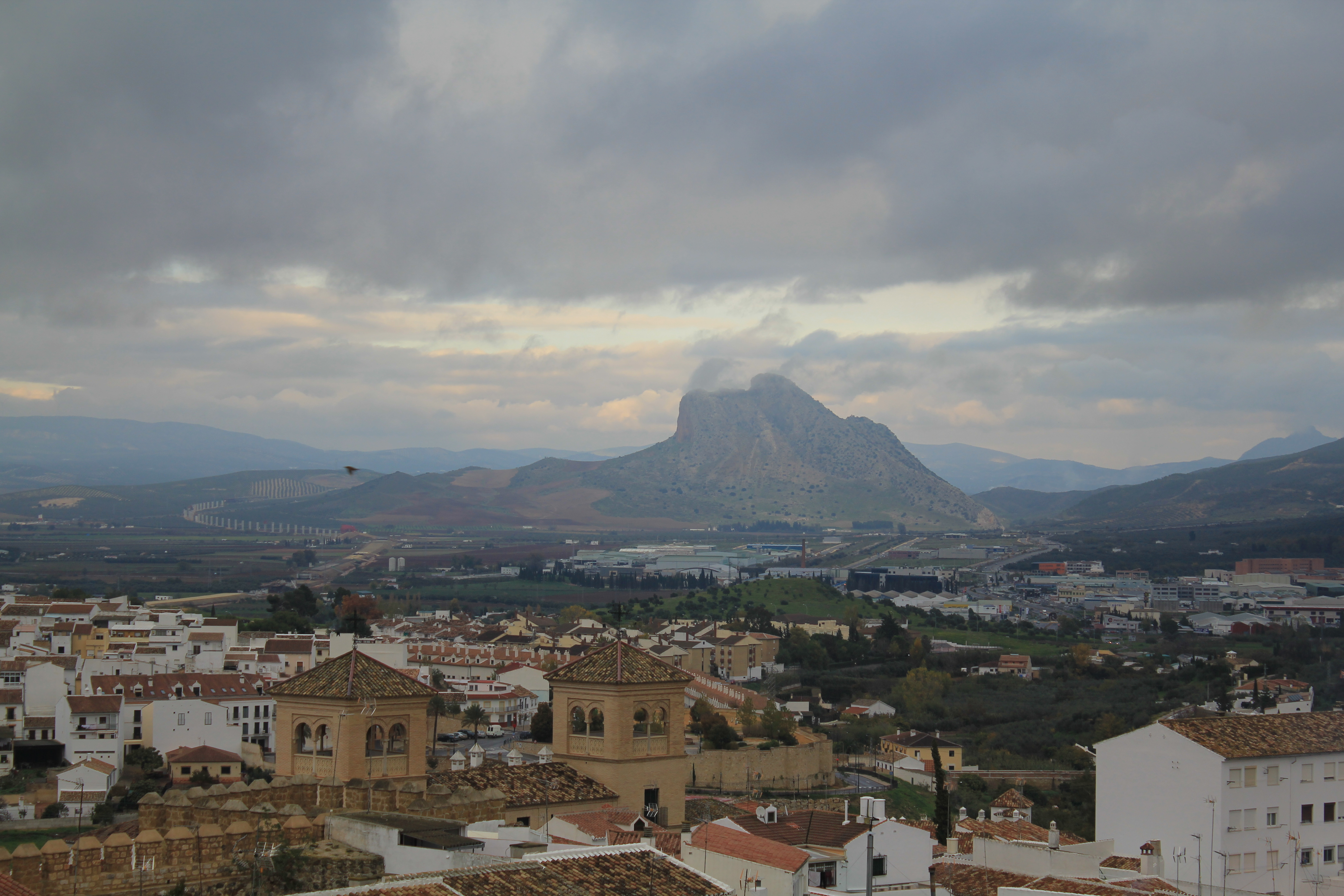 Antiquera, Spain